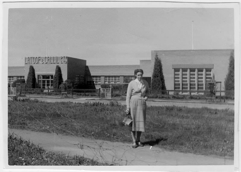 Migrant women were employed at the Latoof and Calill clothing factory.